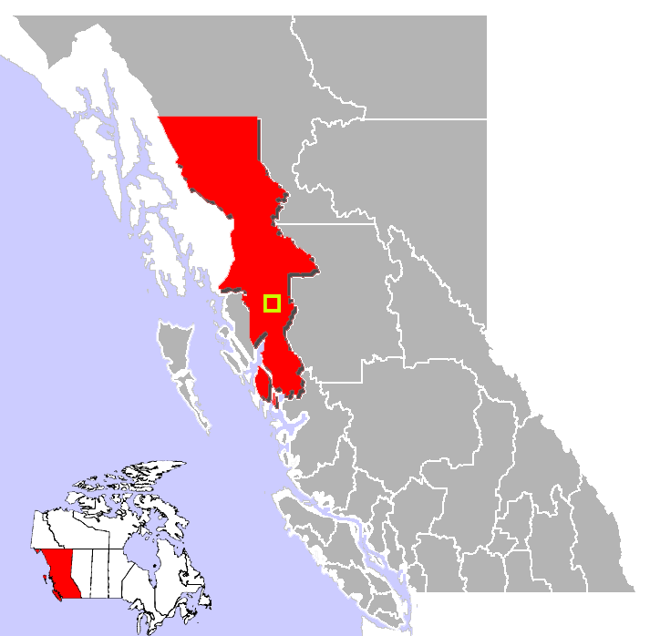 Terrace, British Columbia location.